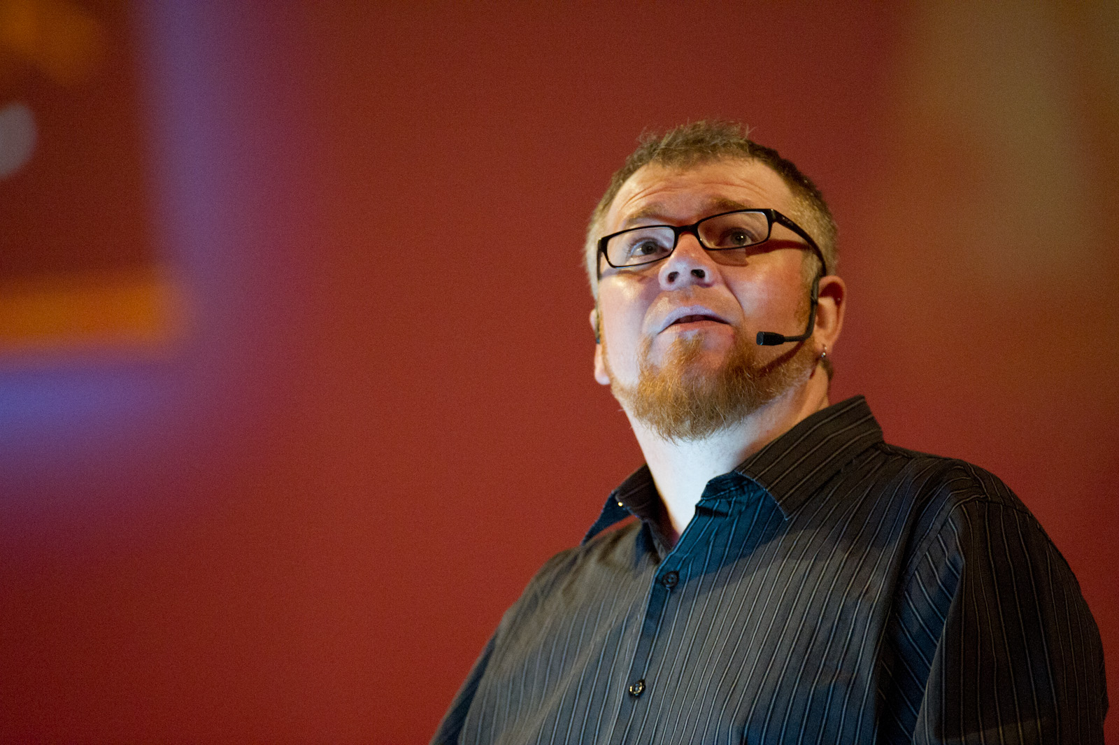 Daniel Loxton, the keynote speaker at LogiCON, a science outreach event at the Telus World of Science (April 9, 2011).